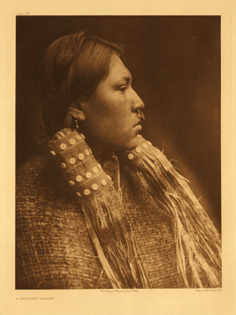 Hesquiat maiden (Edward Curtis photo).